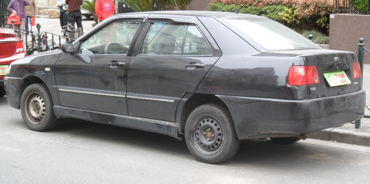 Chery A15 / Cowin photographed in Shanghai, China.